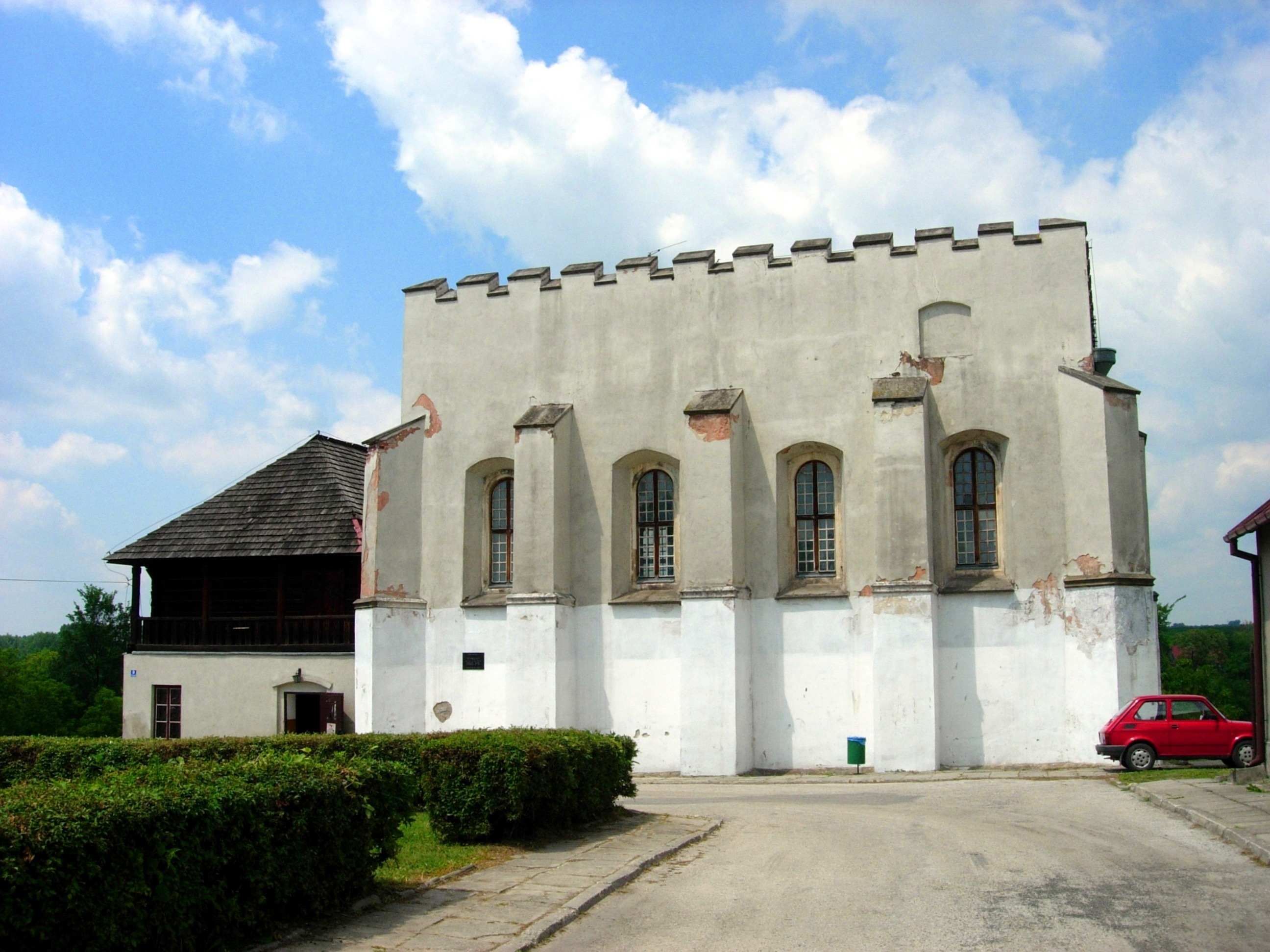 The Synagogue in Szydłów